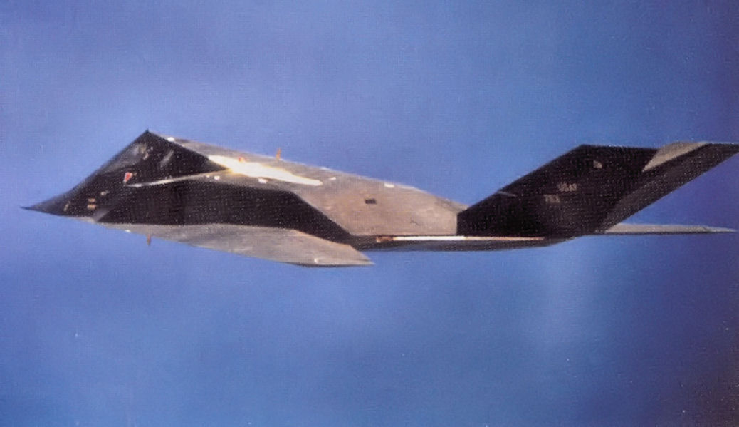 Lockheed F-117A Nighthawk 79-10782 (FSD-3). Photo taken while assigned to the 4450th Tactical Group, Tonopah Airport, Nevada. Retired to Holloman AFB, NM Nov 14, 2005 for use as ground instructional airframe. Now on display at Holloman AFB, NM